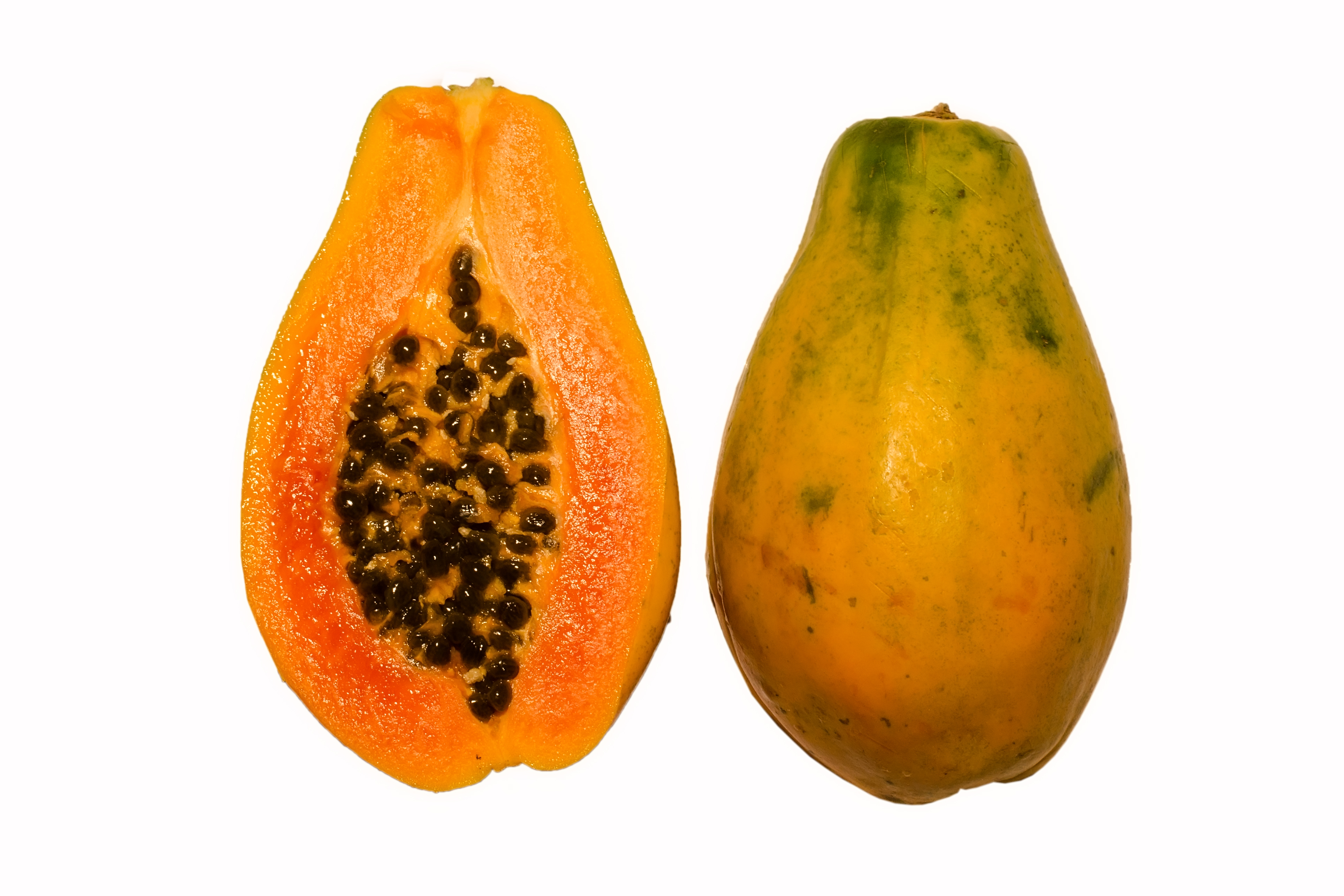 Papaya cross section